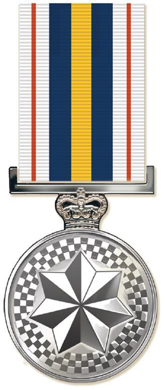 Representation of obverse of the Australian National Police Service Medal